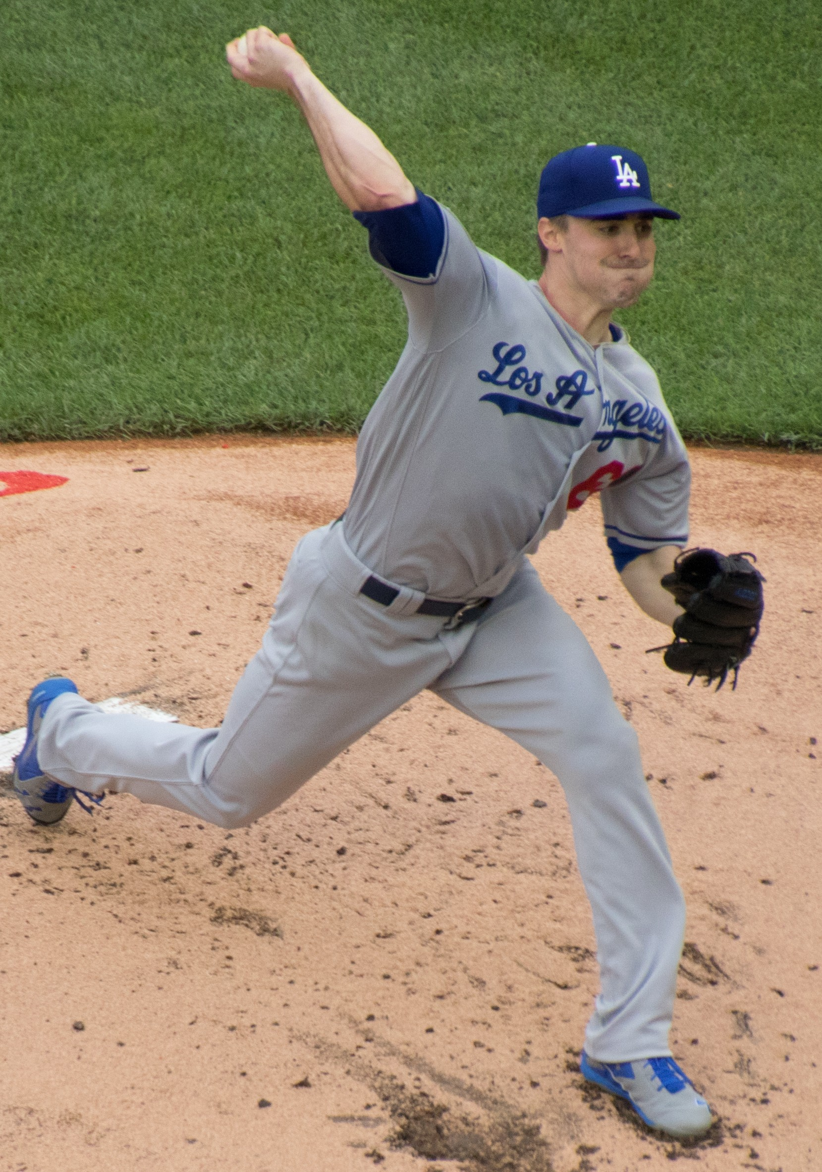 Ross Stripling